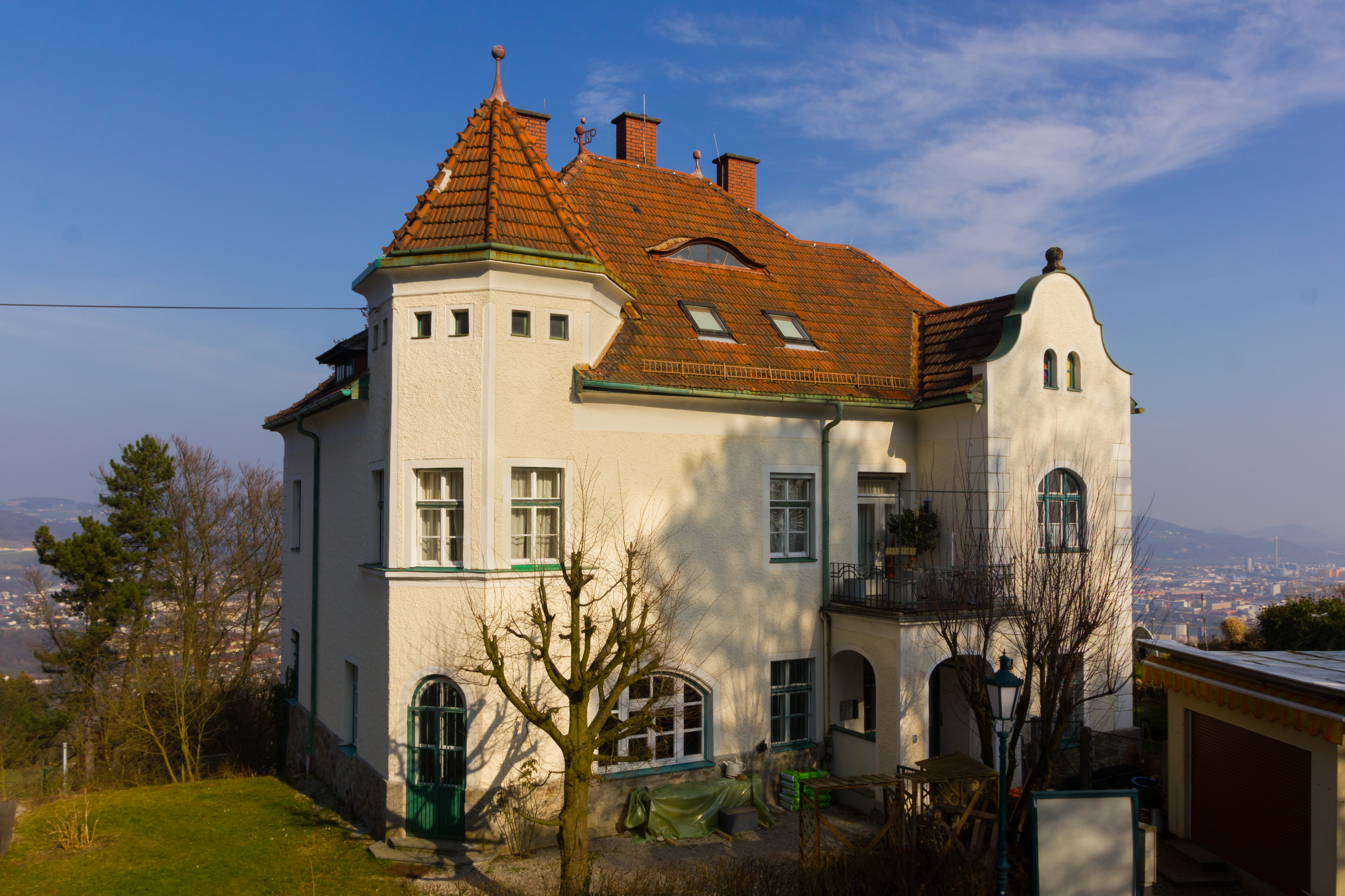 The protected monument Am Pöstlingberg 11 in Linz.